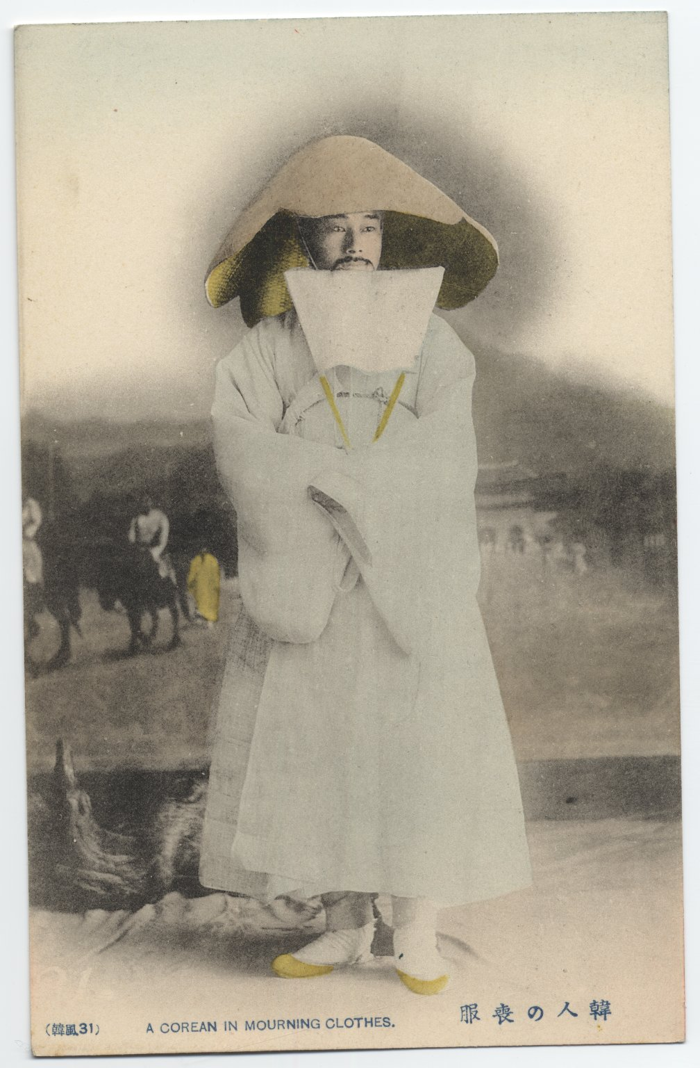 Collection: Willard Dickerman Straight and Early U.S.-Korea Diplomatic Relations, Cornell University Library Title: A Corean in mourning clothes Date: ca. 1904 Place: Asia: South Korea Type: Postcards/Ephemera Description: "When mourners went outdoors, they wore a long coat over their mourning dress. The coat sleeves differed in width according to social class: wider sleeves for upper classes and narrower sleeves for lower classes. All mourners wore conical hats made of finely-cut bamboos on the outside and of sedge on the inside." They carried a 'poson' (fan made from hemp cloth) in order to cover their faces. Source: Kwon, O-chang. Inmurhwaro ponun Choson sidae uri ot, 1998, p. 90. Inscription/Marks: Image imprinted with legend: 'A Corean in mourning clothes.' Identifier: 1260.74.11.04 Persistent URI: There are no known U.S. copyright restrictions on this image. The digital file is owned by the Cornell University Library which is making it freely available with the request that, when possible, the Library be credited as its source. We had some help with the geocoding from Web Services by Yahoo!